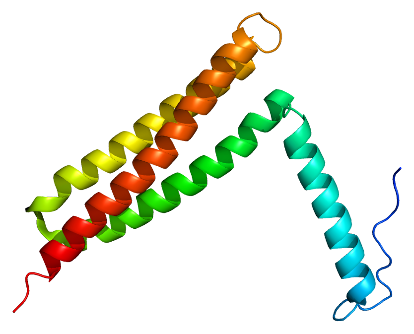 Structure of the PTK2 protein. Based on PyMOL rendering of PDB 1k04.